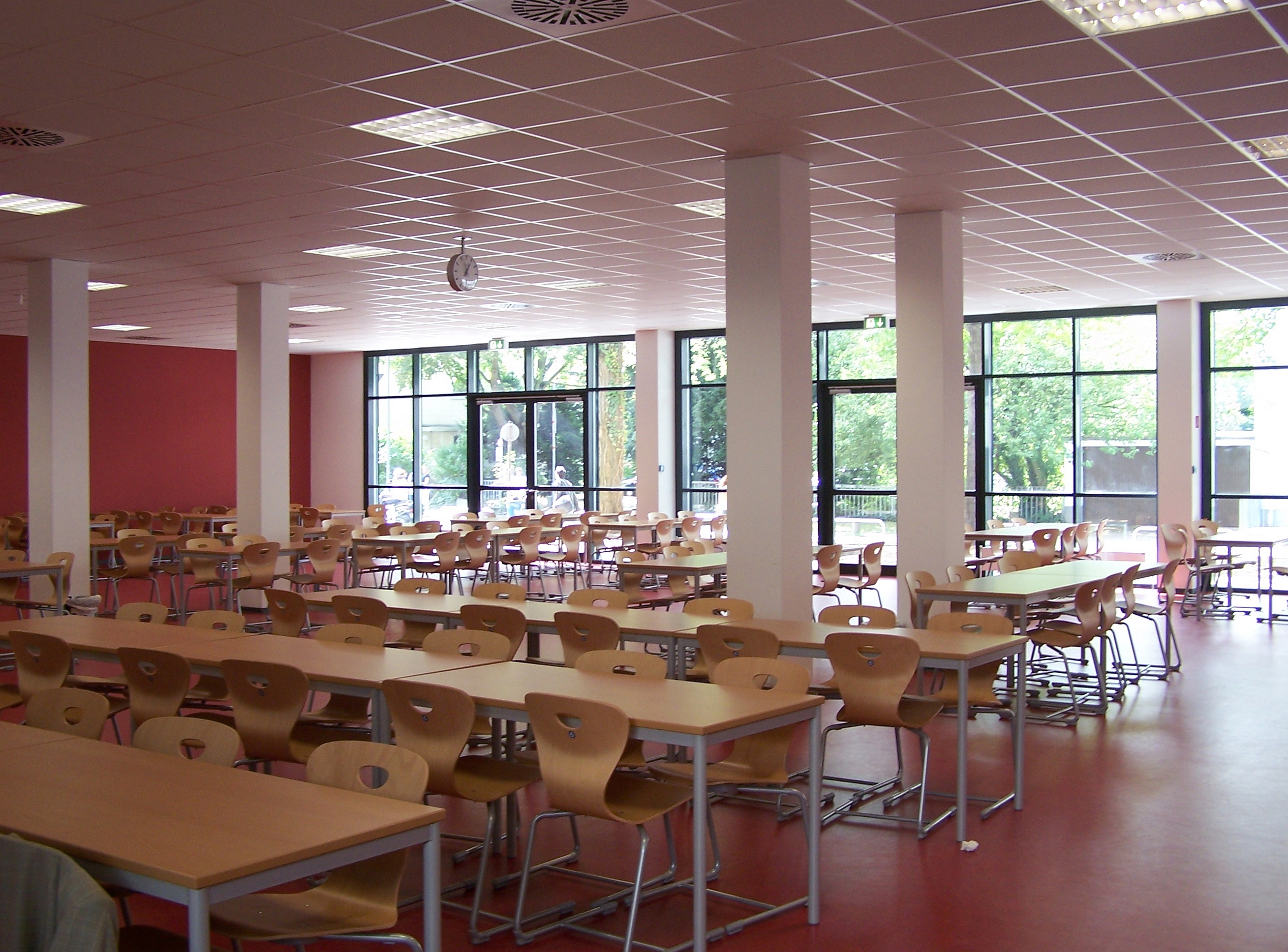 Cafeteria of the new Bikuz